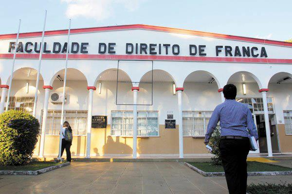 Picture wall FDF.